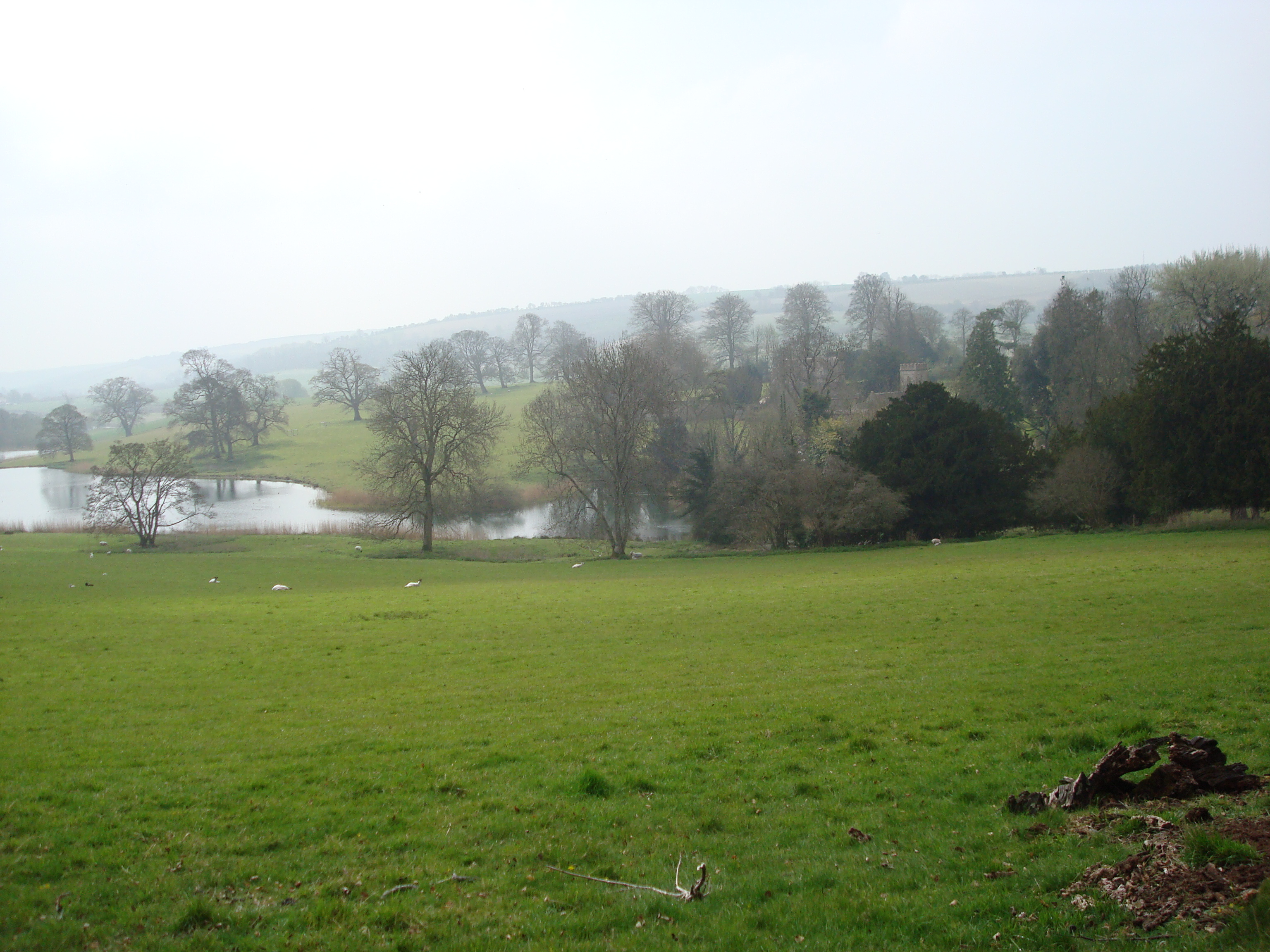 John Mount Batten lived at Upcerne, which lies nestled within the trees. S Knights, my photo, April 2008